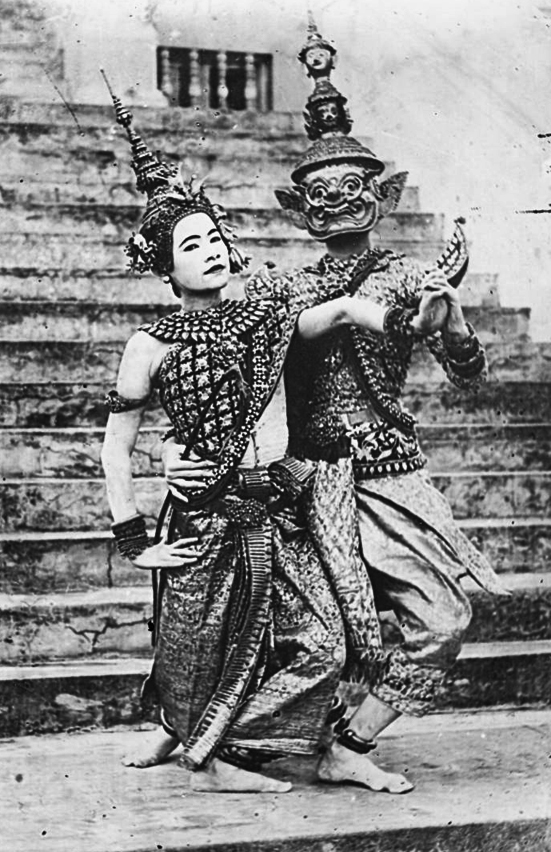 Classical dancers, as Sita and Ravana, of the Royal Palace in Phnom Penh, Cambodia.